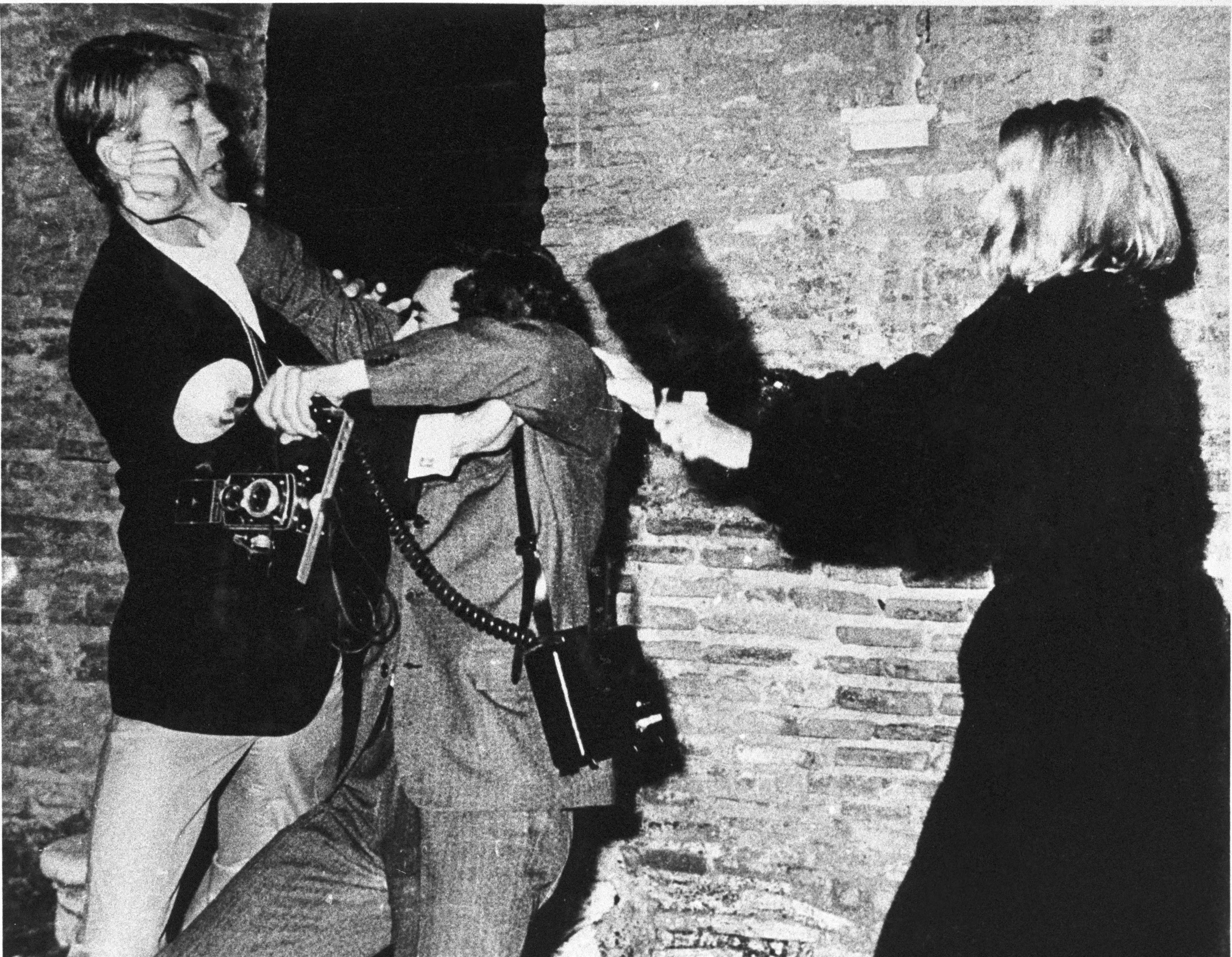 Mickey Hargitay pounds paparazzo Rino Barillari while a lady smaks him with her purse - Via veneto 1963